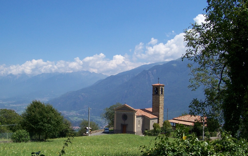 Church of Saints Nazarius and Celsus. Anfurro, Angolo Terme, Val Camonica